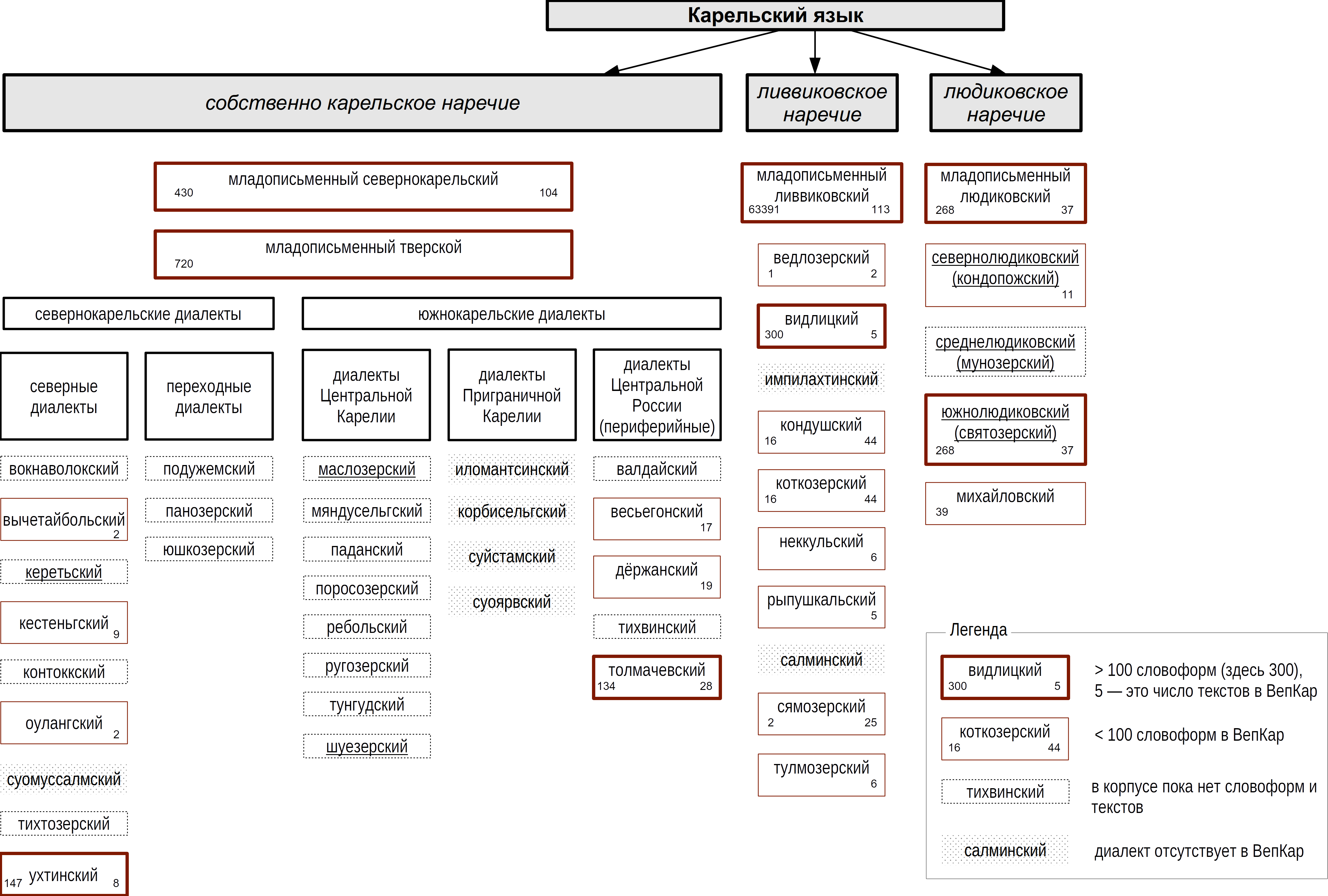 Scheme of dialects of the Karelian language includes Karelian Proper supradialect, Livvi-Karelian supradialect, Ludian supradialect. The number of word forms (left) and the number of texts (right) in VepKar corpus are indicated in rectangles with the names of the dialects, 2019.